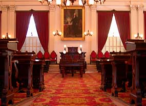 Chamber of Vermont House of Representatives in the Vermont State House.